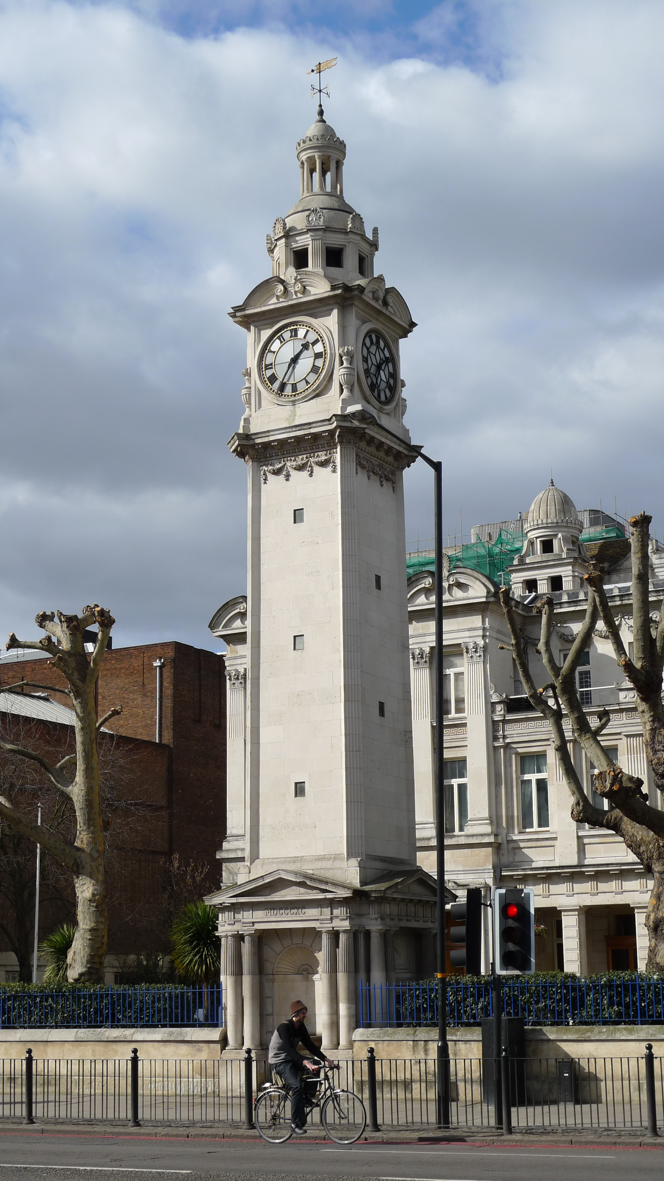 The clocktower outside the Queens' building, part of Queen Mary University of London (QMUL). Address: Mile End Road.